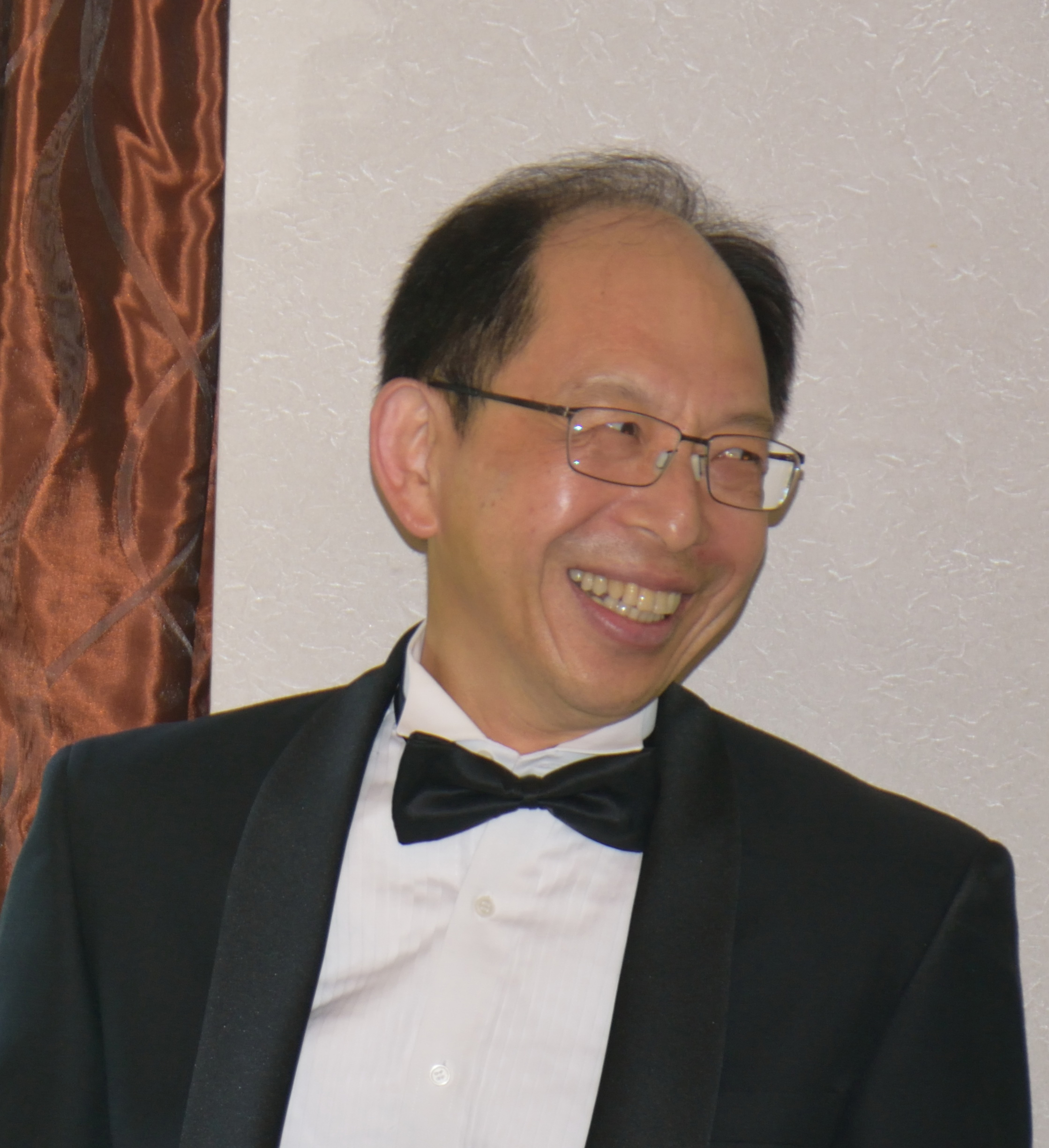 Shawn-Yu Lin